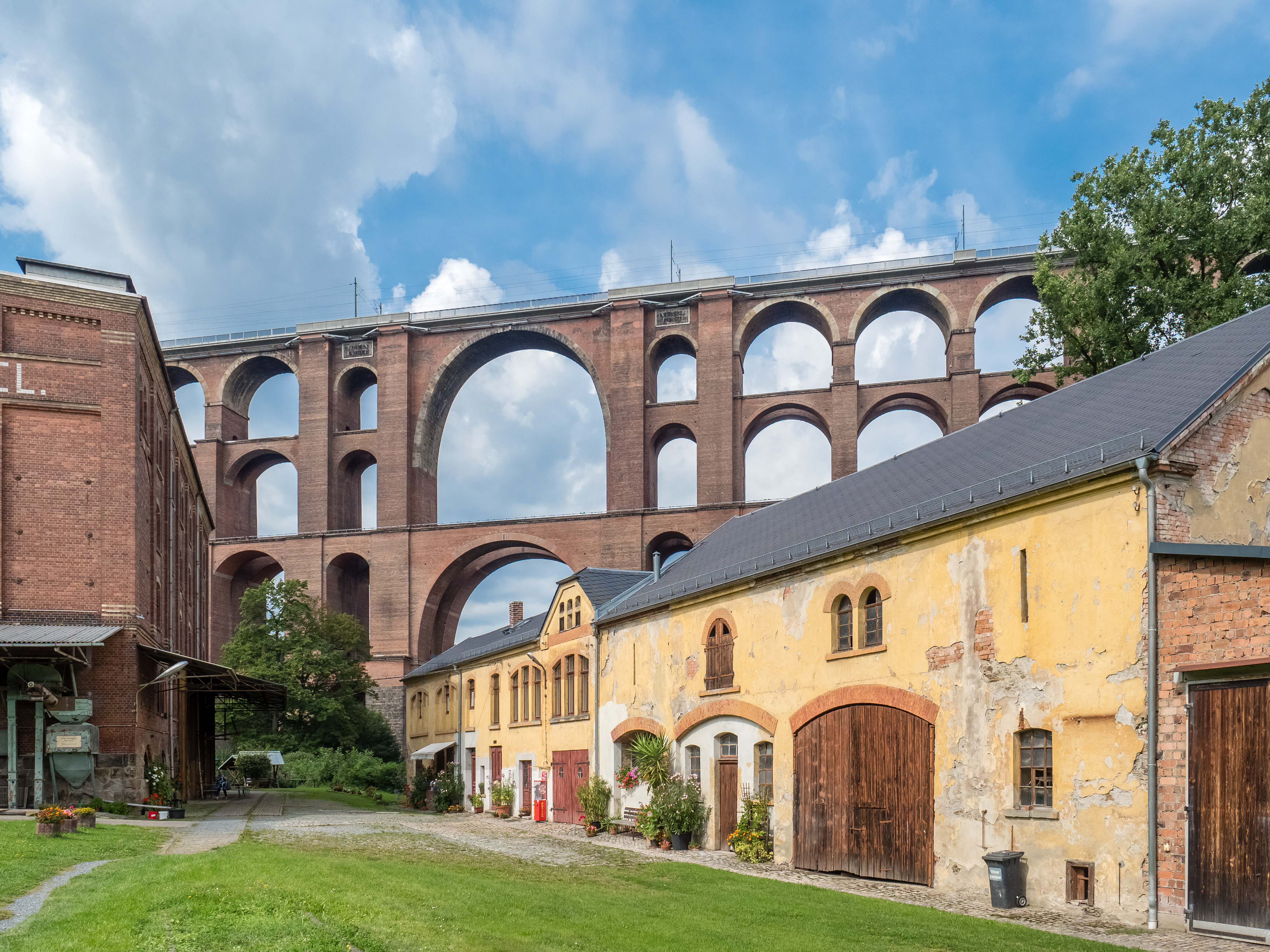 View of the Göltzschtal Bridge